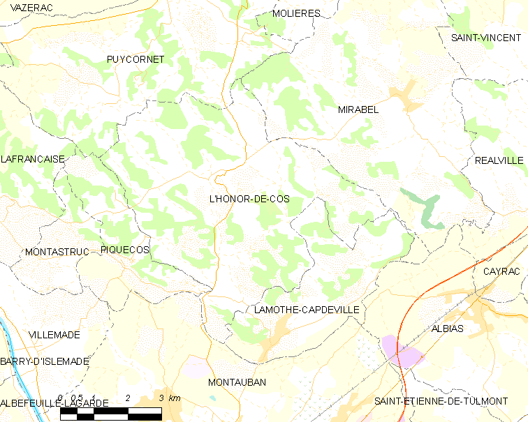 Map of French municipality L'Honor-de-Cos